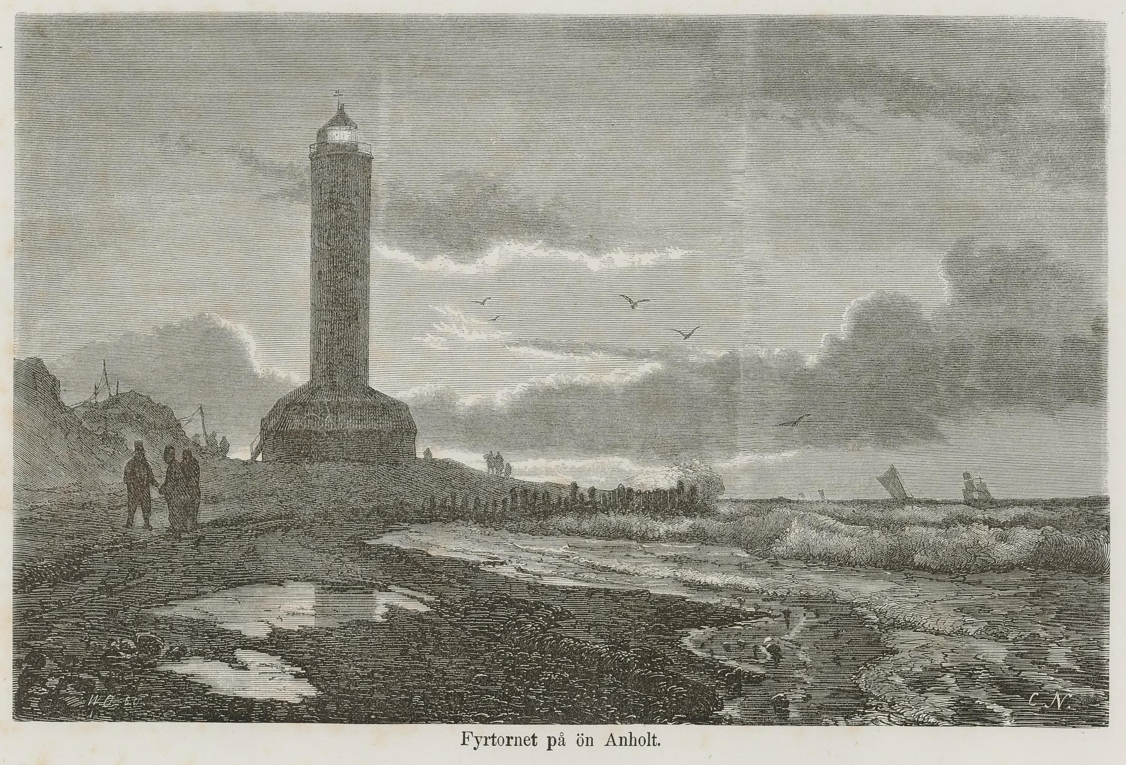 The Danish weekly Illustreret Tidende had an article on the attack on Anholt (1810) in the June 2, 1861 edition. When the Danes switched off the lighthouse in 1807, the British Navy eventually occupied the island. The lighthouse was featured in this illustration by Carl Neumann. It was reused in the book Nordiska taflor, published by Albert Bonnier (se, 1867)